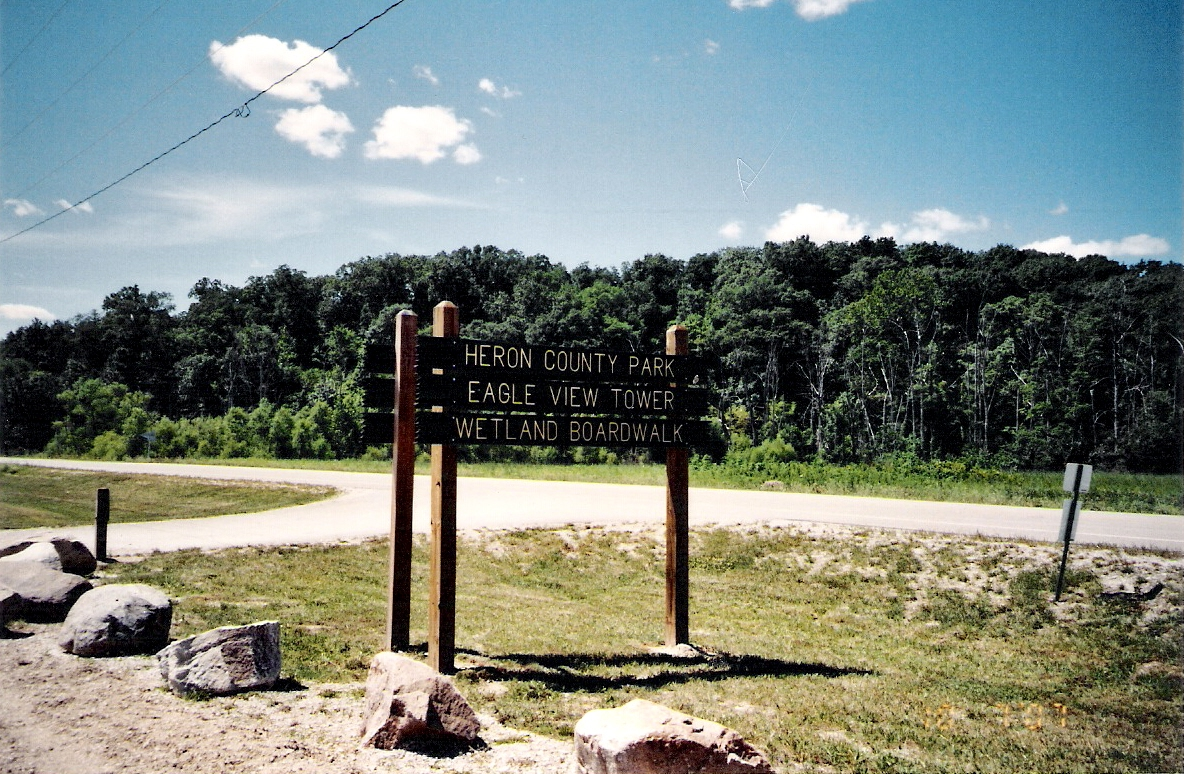 Heron County Park Entrance at the eastern section Eagle View Tower Wetland Boardwalk